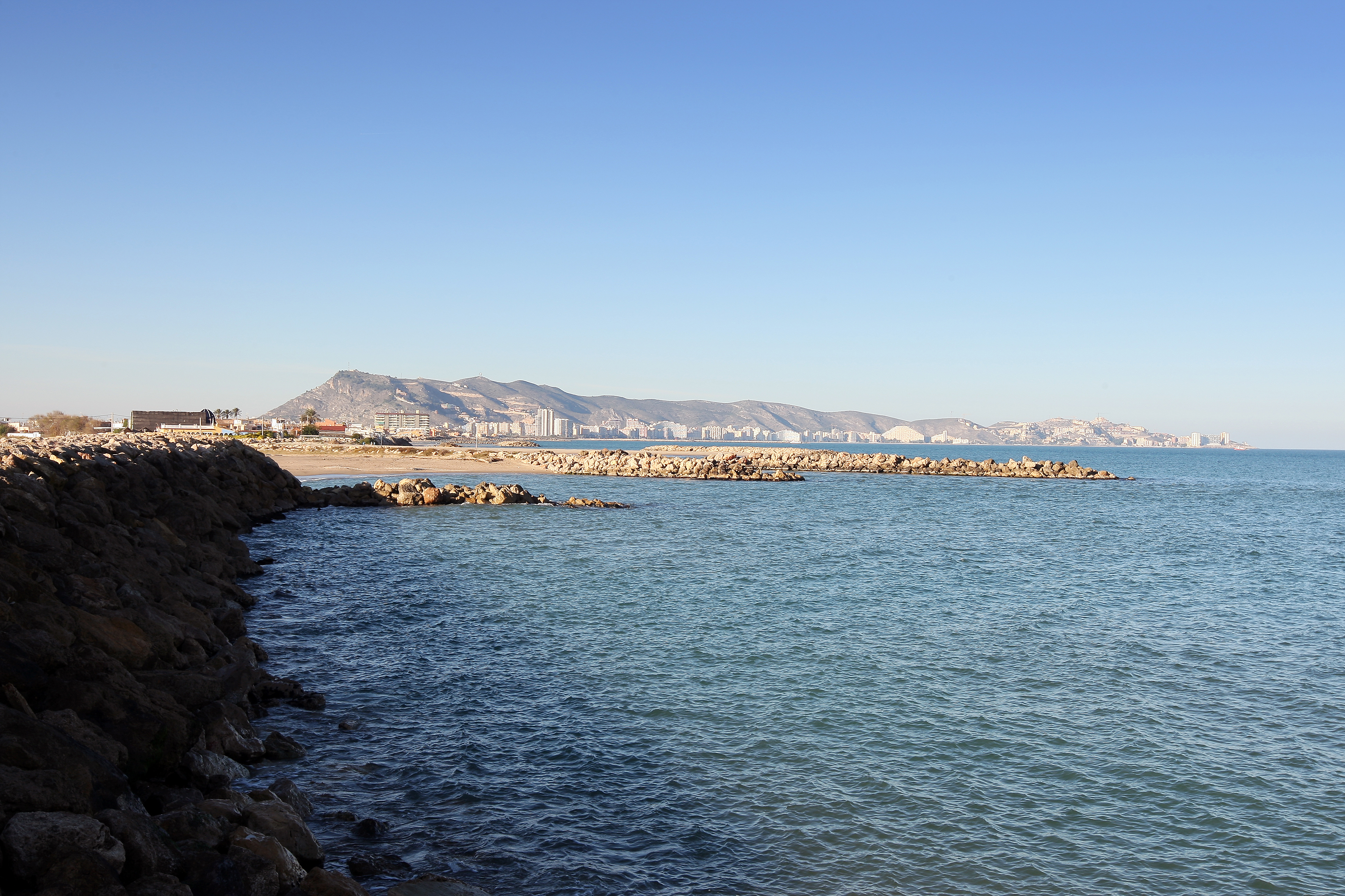 Playa del Brosquil de Cullera